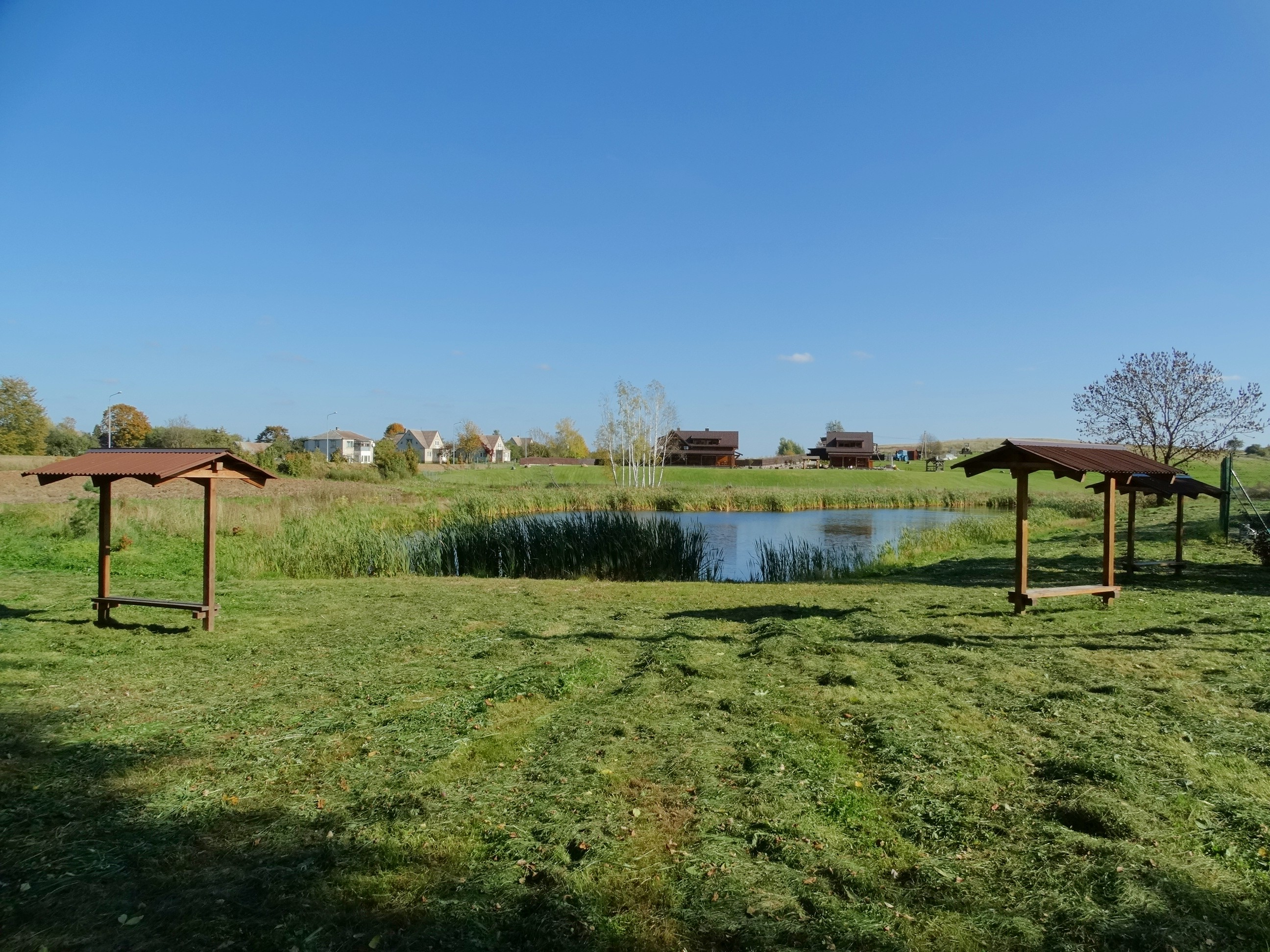 Abromiškės, Elektrėnai Municipality, Lithuania